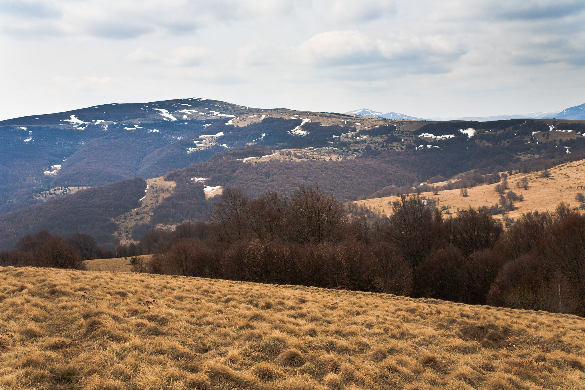 Milevets peak, also called Bandera. A peak in Kraishte mountains, Bulgaria